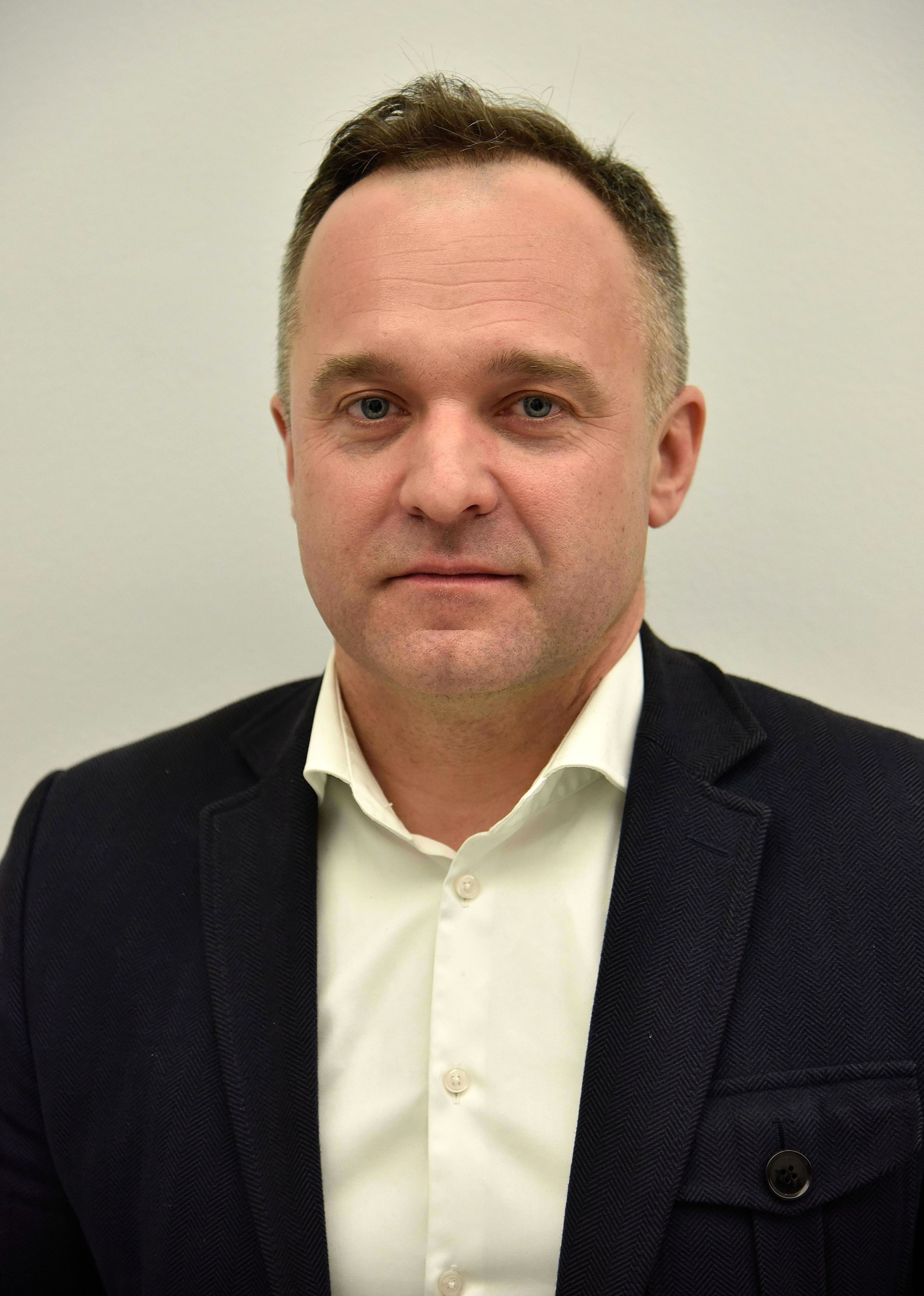 Artur Bramora in the Sejm